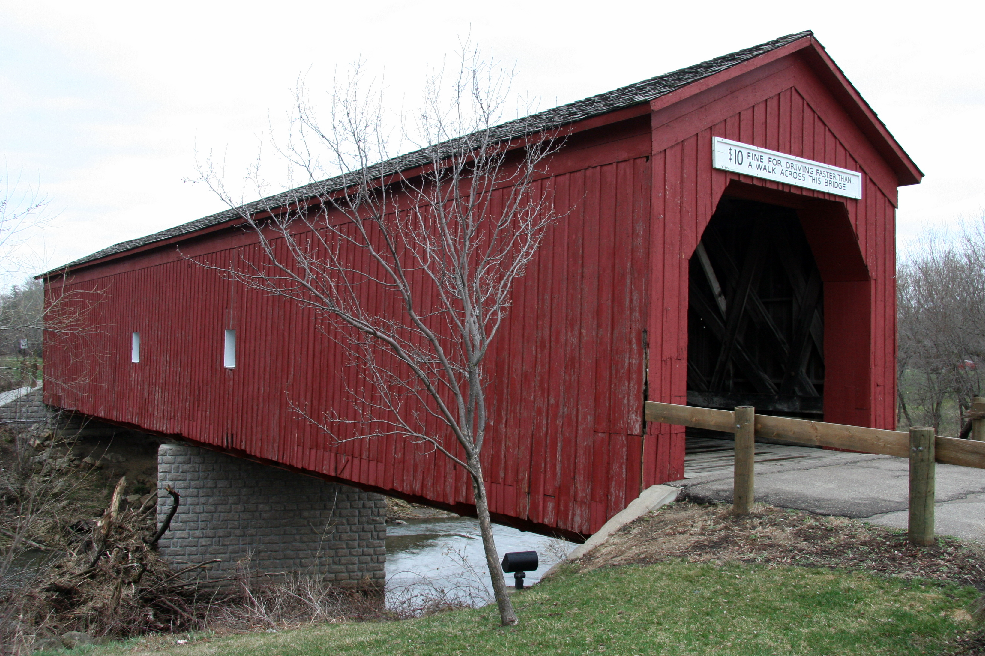 Zumbrota Covered Bridge in Zumbrota, Minnesota